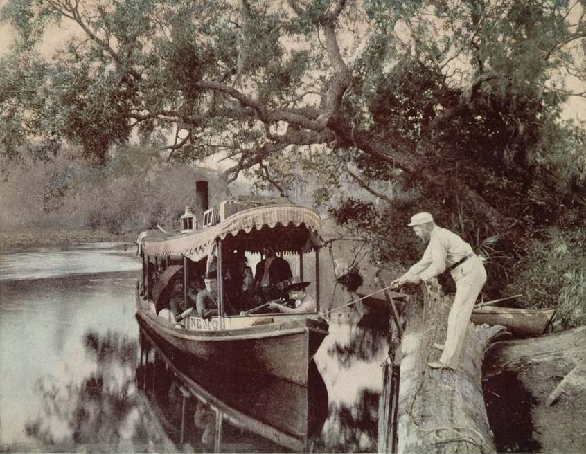 Winter in Florida, a duotone print from James W. Buel, America's Wonderlands, 1893, Historical Publishing Company, Philadelphia, PA.